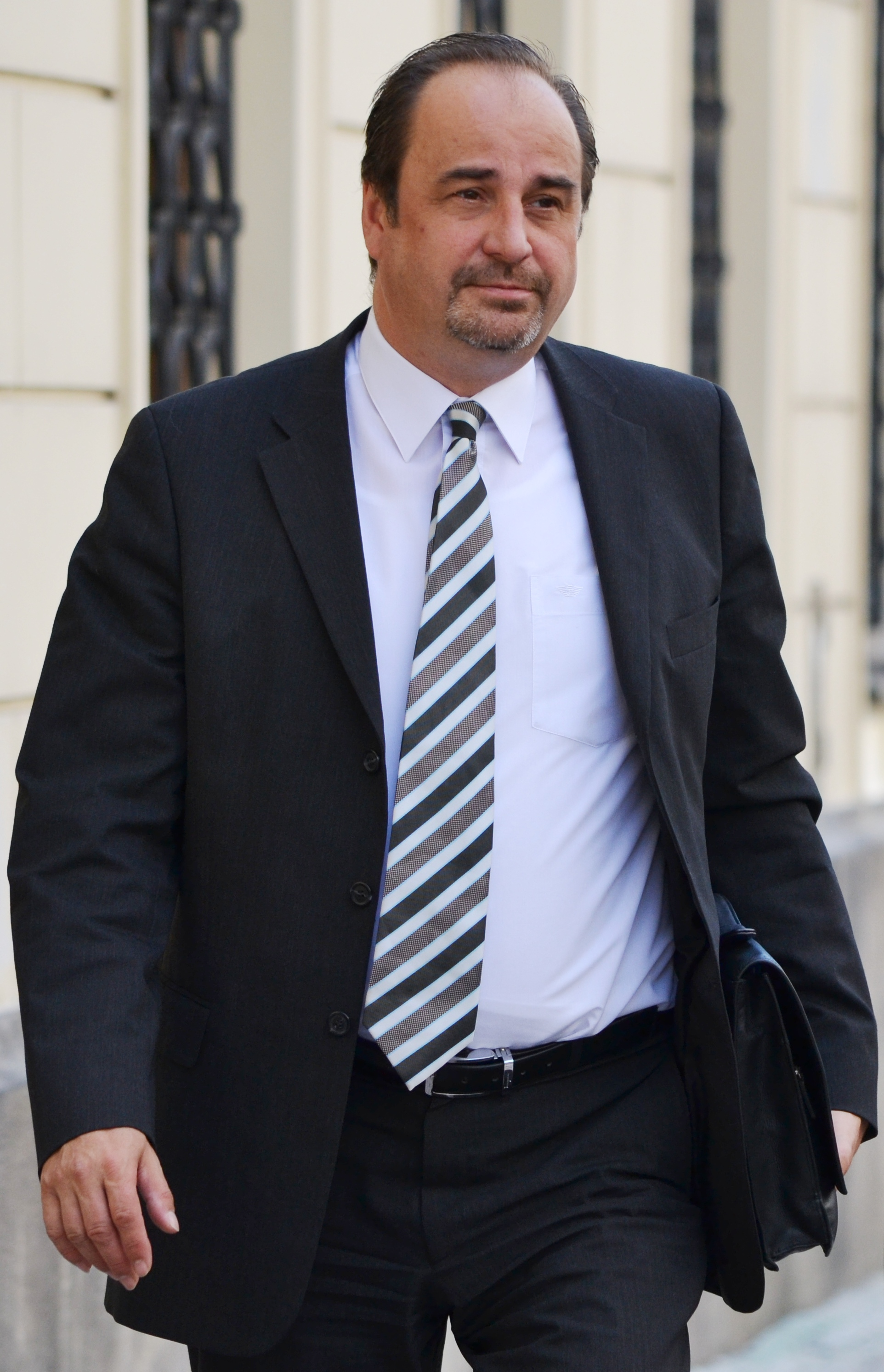 Jan Kohout, Minister of Foreign Affairs of the Czech Rep.